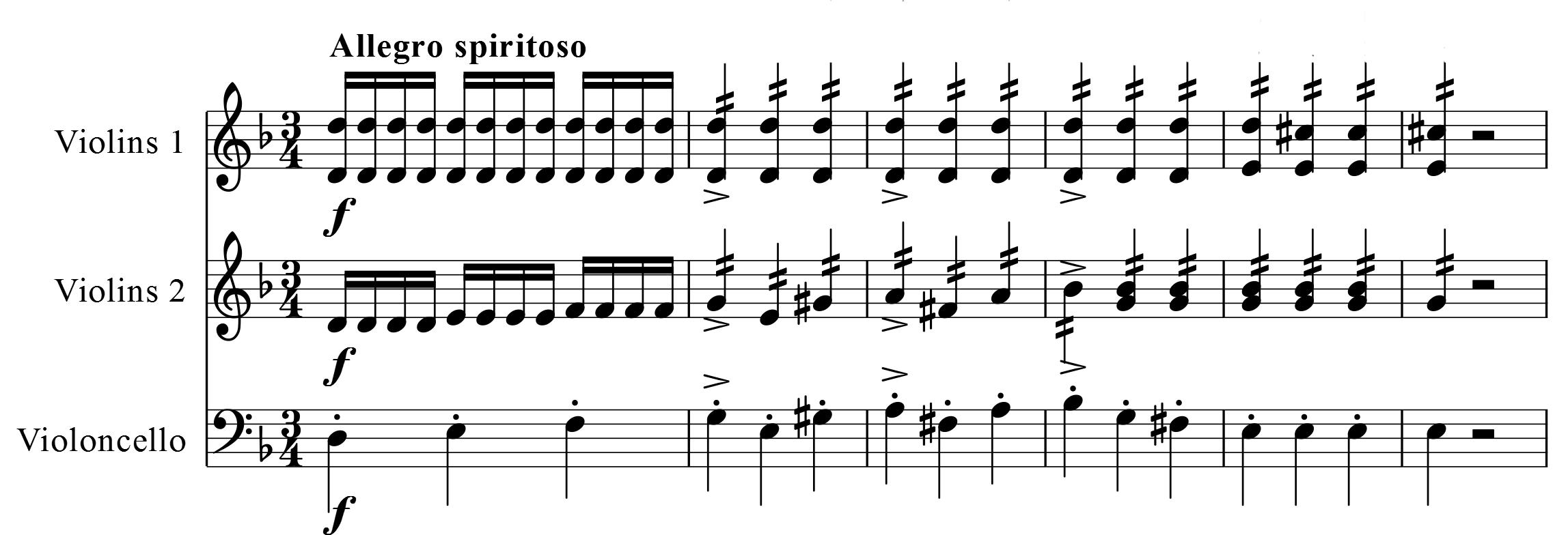 Joseph Haydn, Symphony No. 80, first movement, bar 1-6